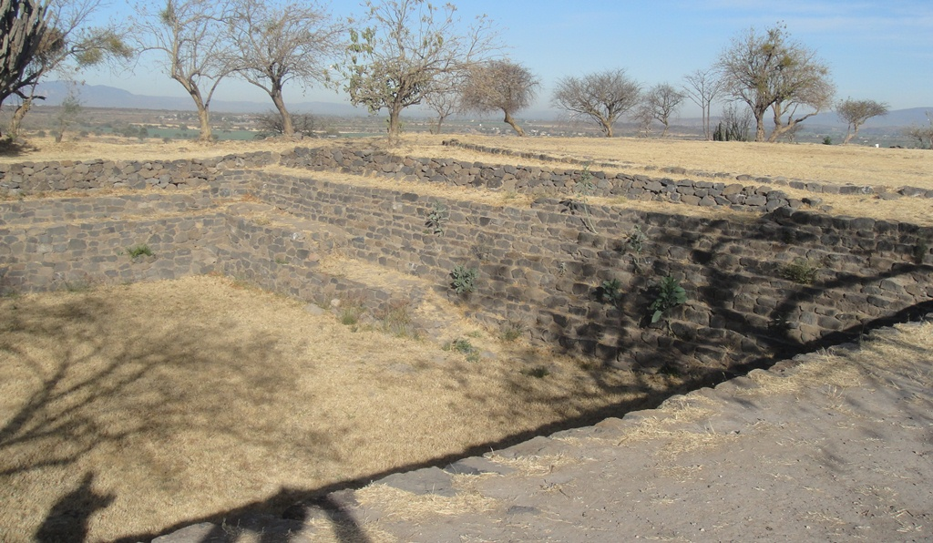 Peralta Main Structure Pool on top